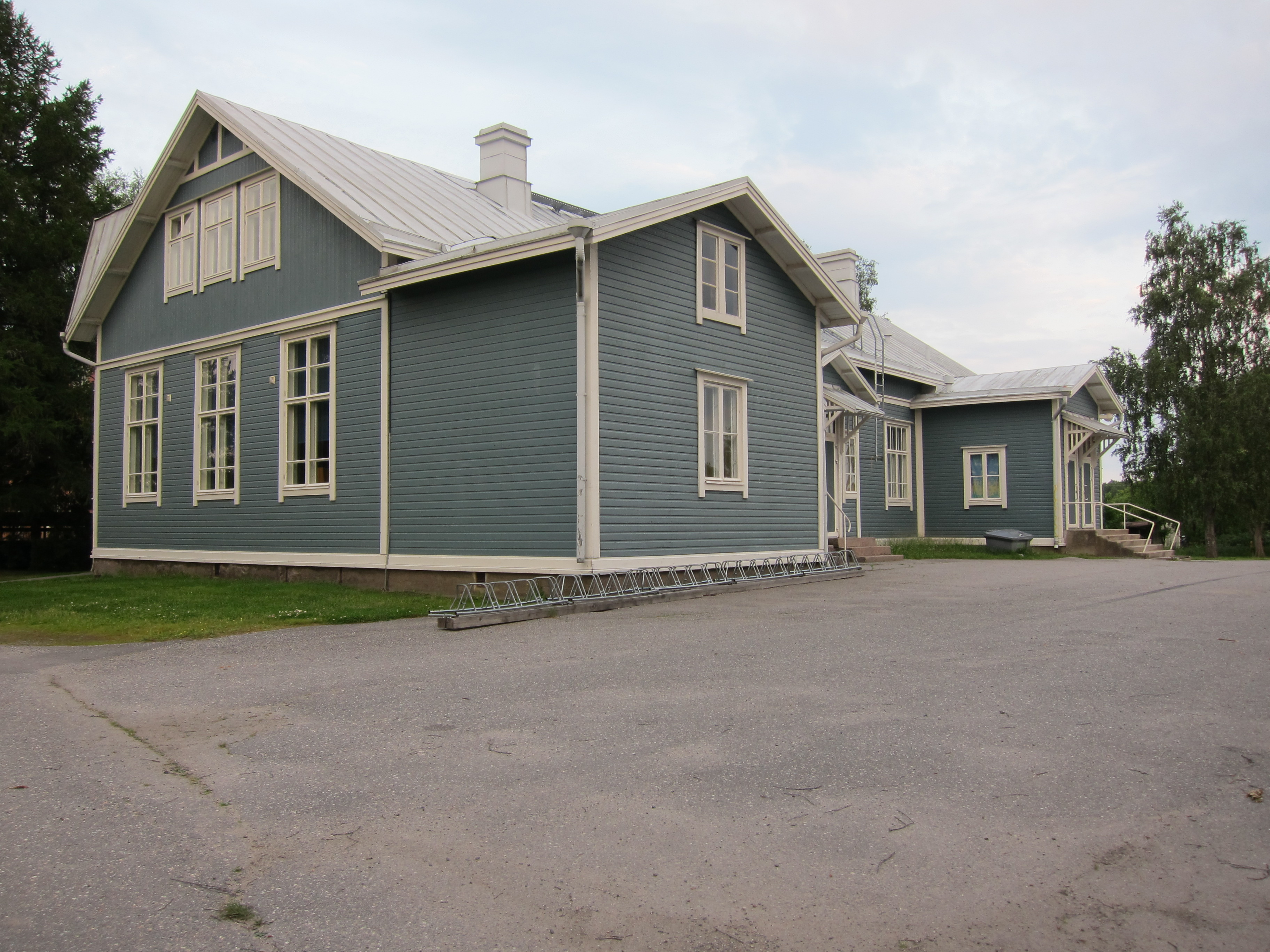 School of Tahvio, district of Nuorikkala, city of Raisio, Finland.